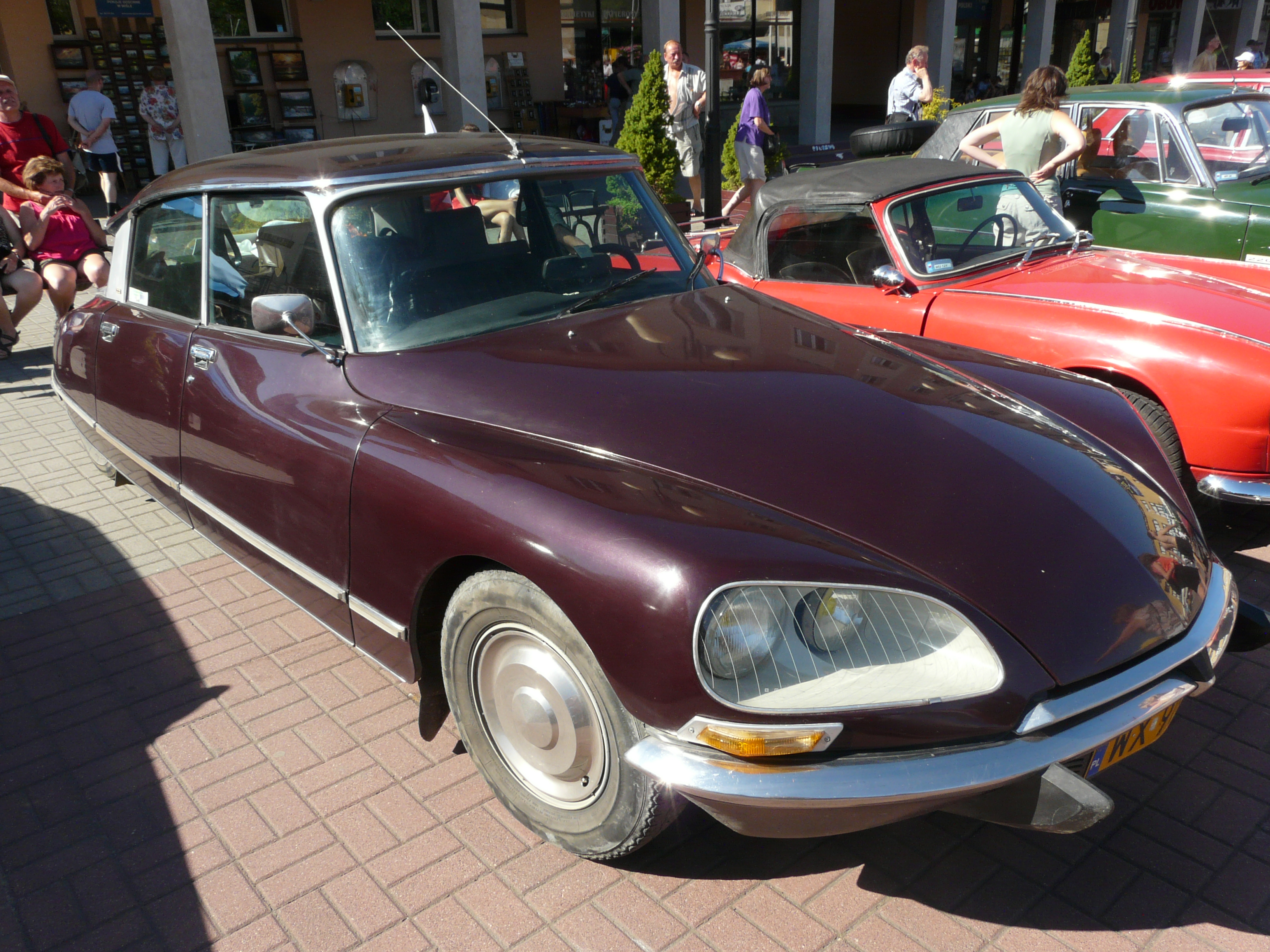 Old car exhibition. Wisa, Poland, 10 July 2010.